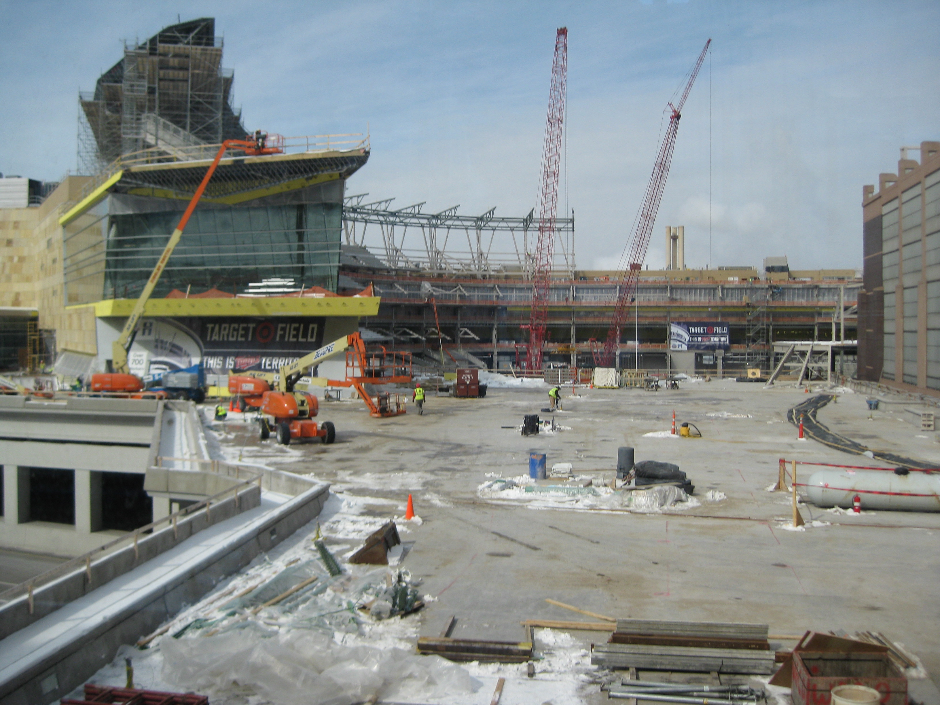 Target Field, where the Minnesota Twins will be playing in 2010, under construction. Taken from the Target Center skyway.